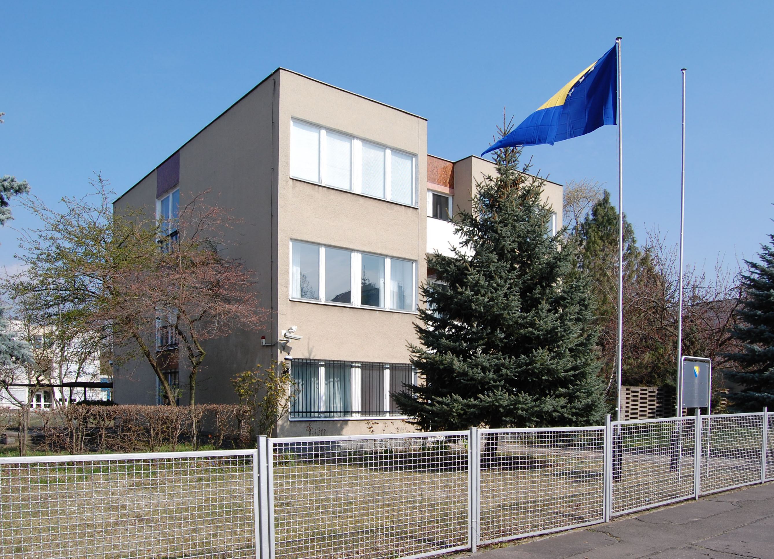 Embassy of Bosnia and Herzegovina in Berlin